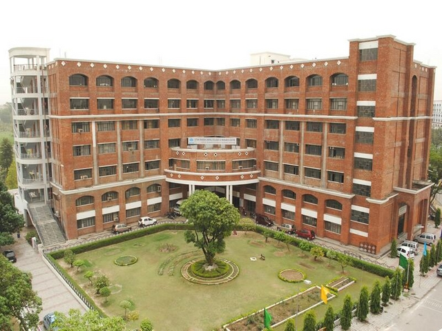 Babu Banarasi Das College of Dental Sciences